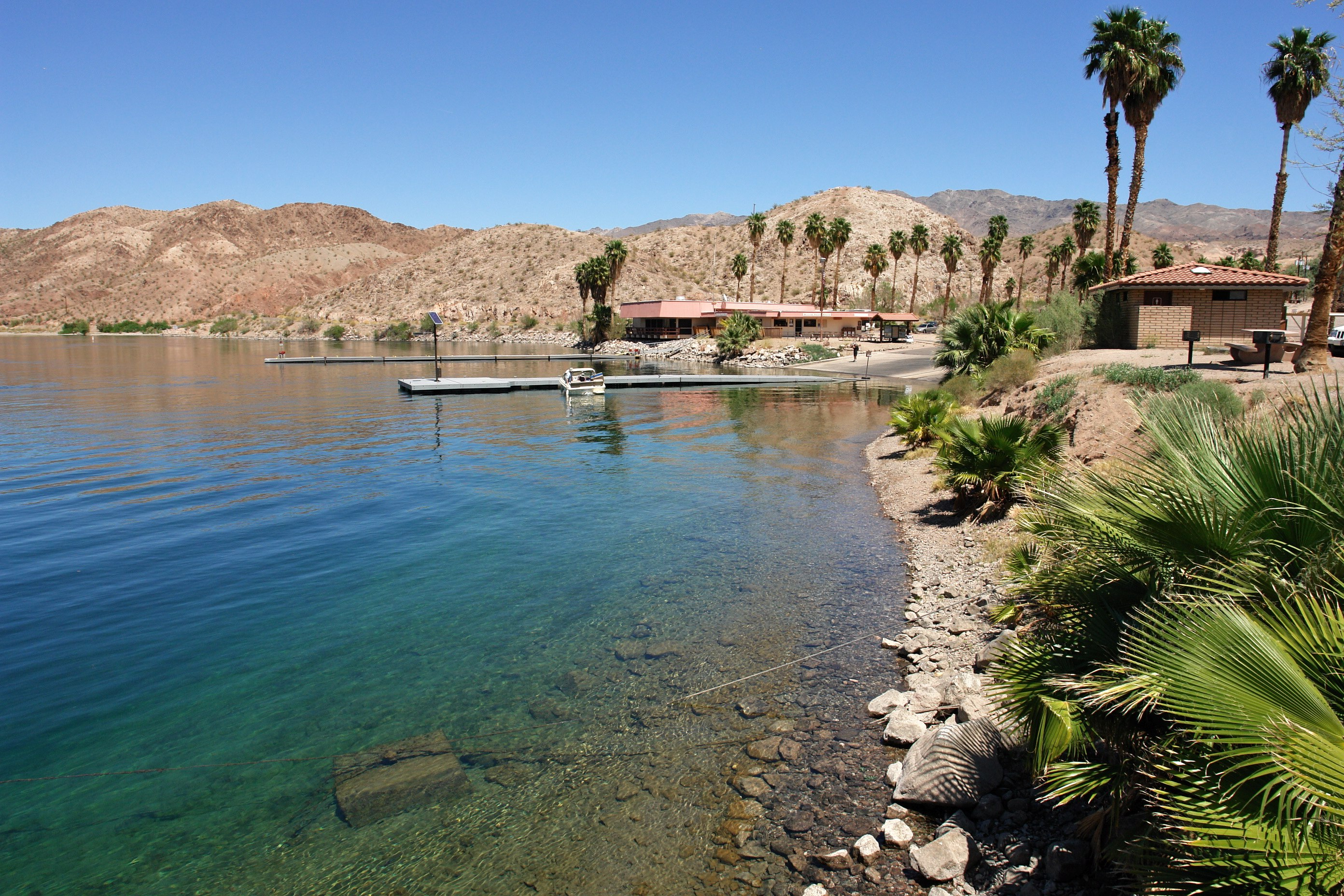 Lake Mead, Willow Beach